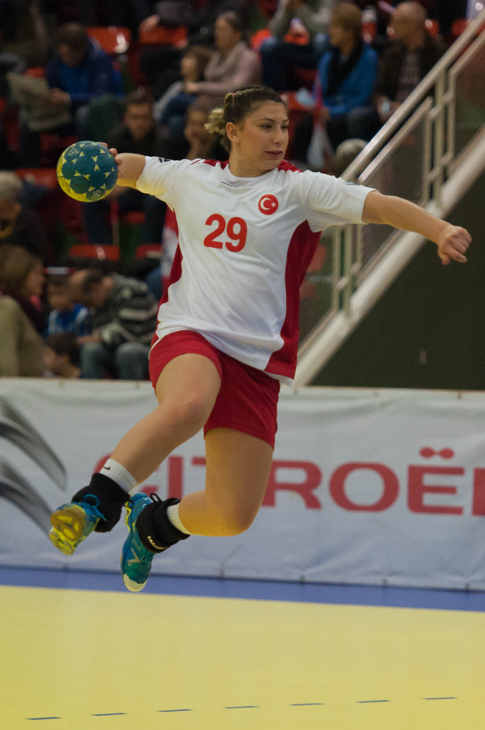 2015 World Women's Handball Championship Qualification 2014-12-06 (warmup): Ceren Demirçelen